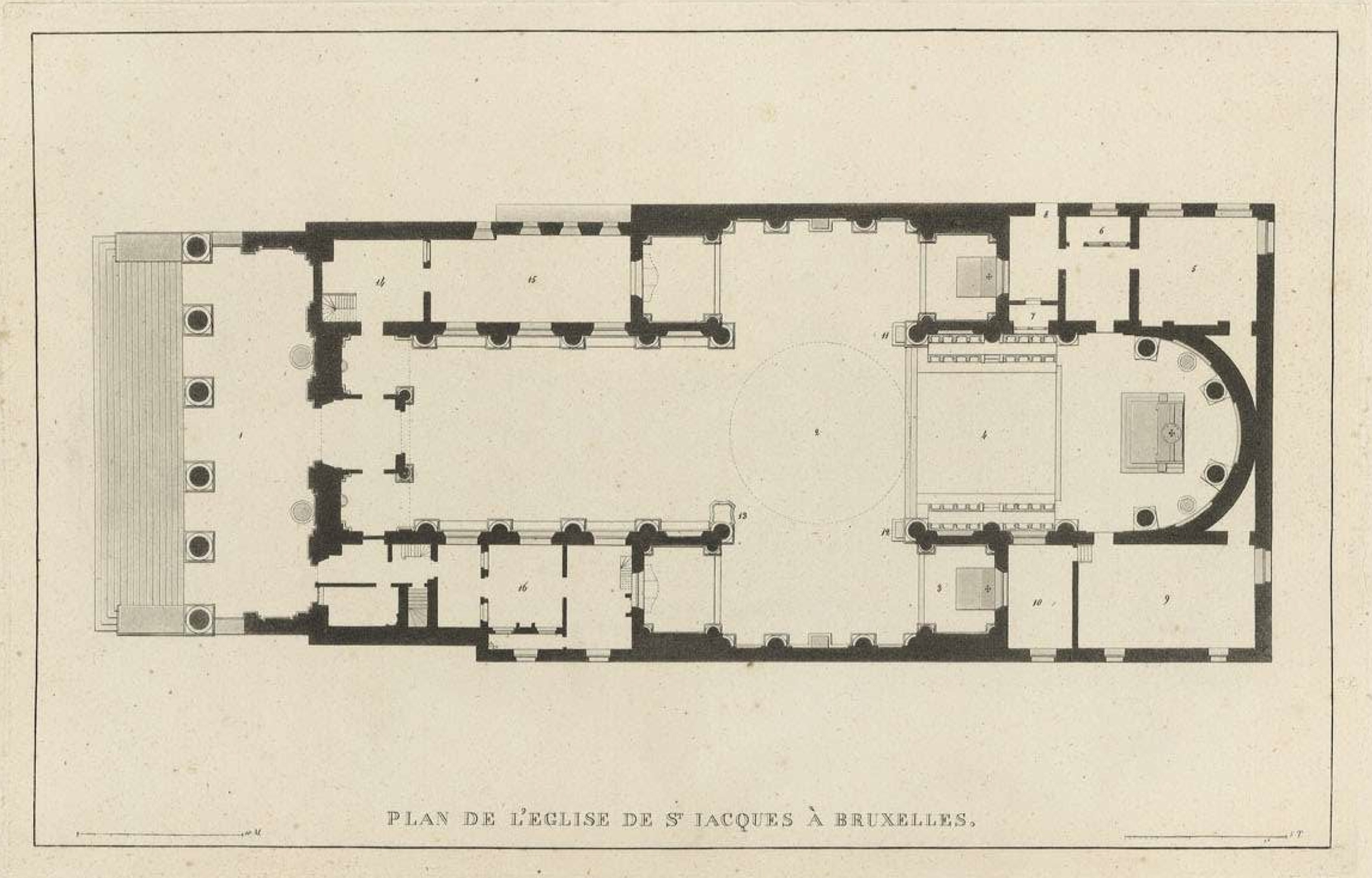 Pierre-Jacques Goetghebuer (1788-1866) became professor of architecture in Ghent, after his studies for architectural drawing at the local art academy. From 1817 he started working on a publication with images of the most remarkable buildings from the newly created United Kingdom of the Netherlands. This book would include both old and contemporary, neoclassicist buildings. Most of the 120 plates depict buildings from the Southern Netherlands, especially Brussels and Ghent. Goetghebuer executed the engravings based upon his own sketches or designs by the architects themselves. Other artists finished the engravings in aquatint. Goetghebuer published this collection of engravings in 1827 with publisher André Benoît II Steven, and he dedicated them to King William I. Many buildings in this book have since disappeared, hence its significant historical importance. Also published in Dutch, with the title Verzameling der merkwaardigste gebouwen in het Koningrijk der Nederlanden.